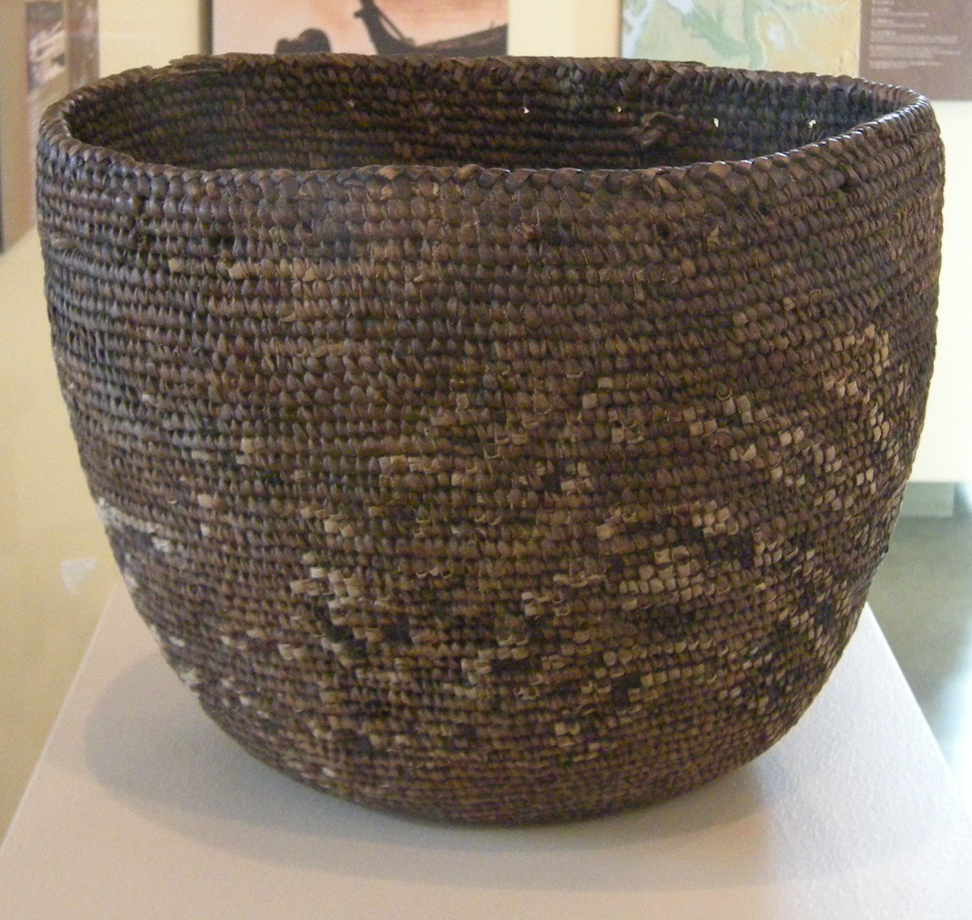 Coiled and imbricated burden basket, Duwamish Longhouse and Cultural Center, Seattle, Washington. This basket was a gift from Princess Angeline (daughter of Chief Seattle) to the Yesler family.